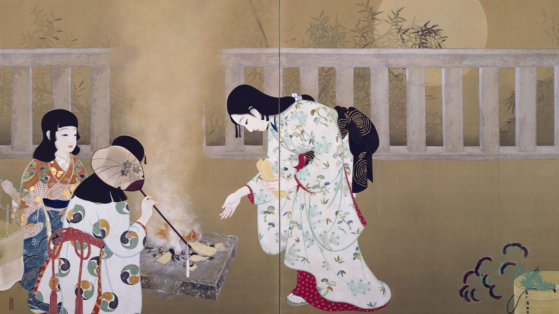 "Bonfire for the Spirits of the Dead (Okuribi)", two-panel screen, Color painting on silk